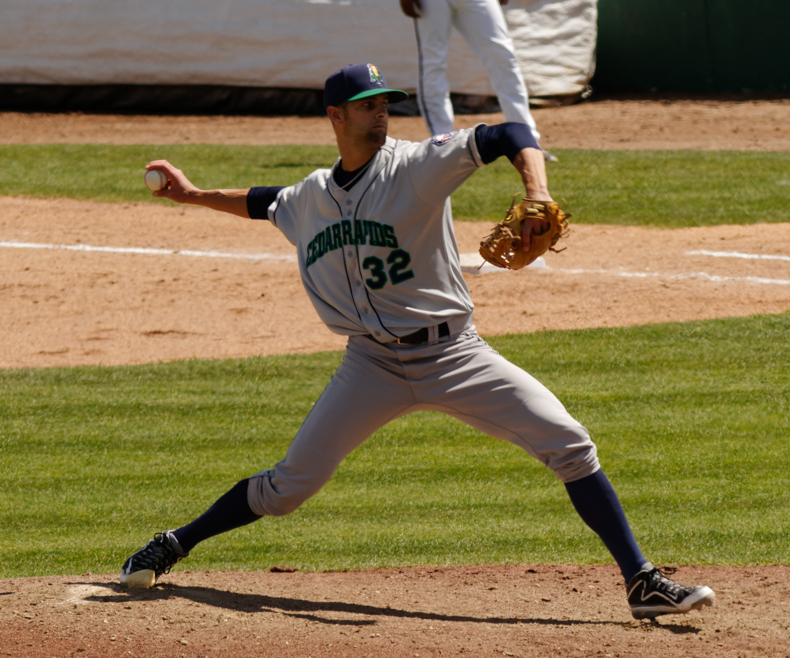 Nick Anderson delivers a pitch for the Cedar Rapids Kernels during a 2016 game at Cooley Law School Stadium in Lansing, Michigan